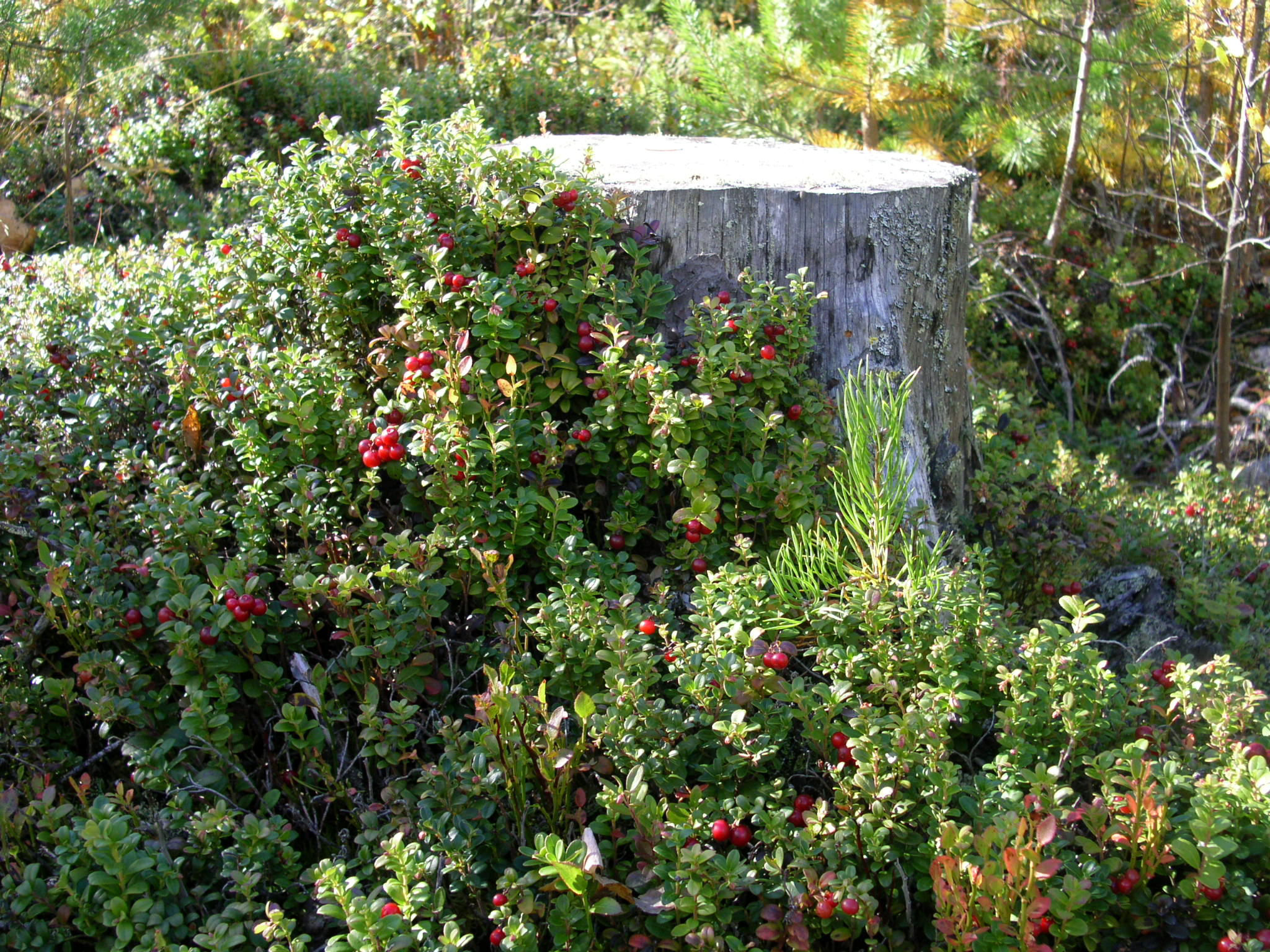 A Vaccinium vitis idaea (lingonberry/cowberry) at the stump of a Scots Pine near Björbo, Sweden.